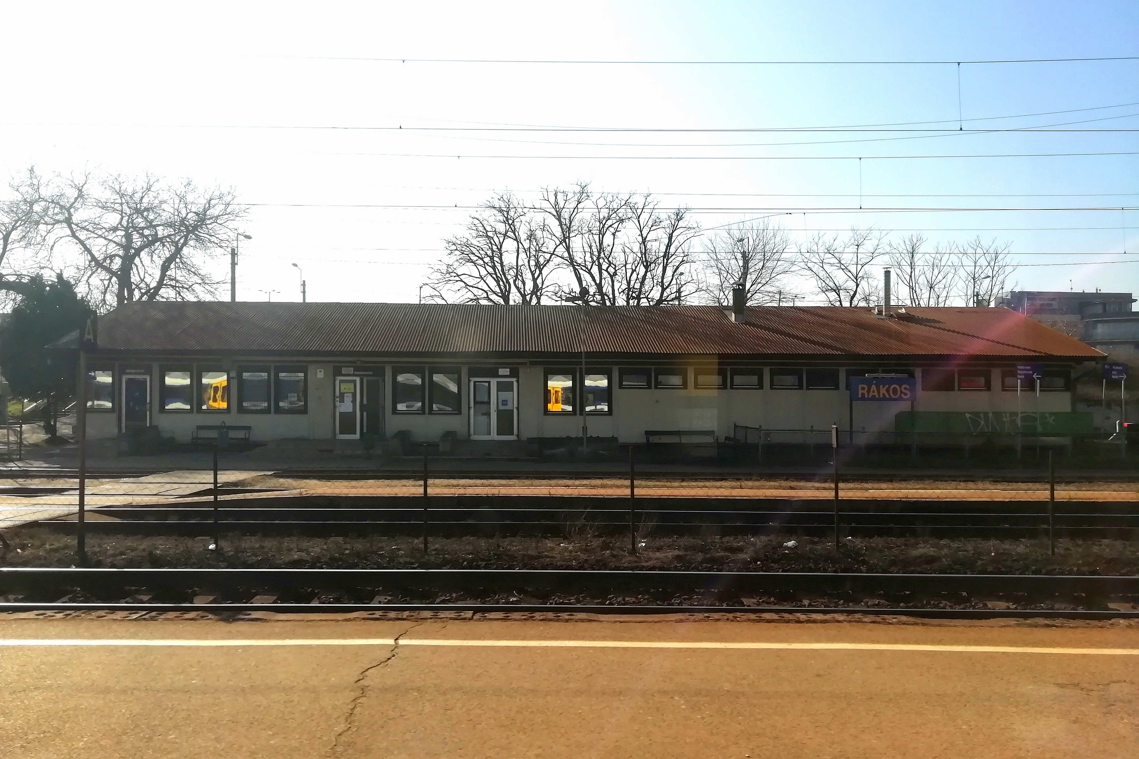 Rákos railway station in Budapest, Hungary